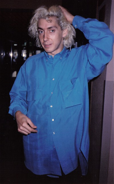 Subject: Budgie of Siouxsie & the Banshees Date: June 1, 1986 Place: Oakland, California, USA (Unknown hotel lobby) Photographer: Andwhatsnext Original 35mm photograph scanned Credit: Copyright (c) 1986 by Nancy J Price